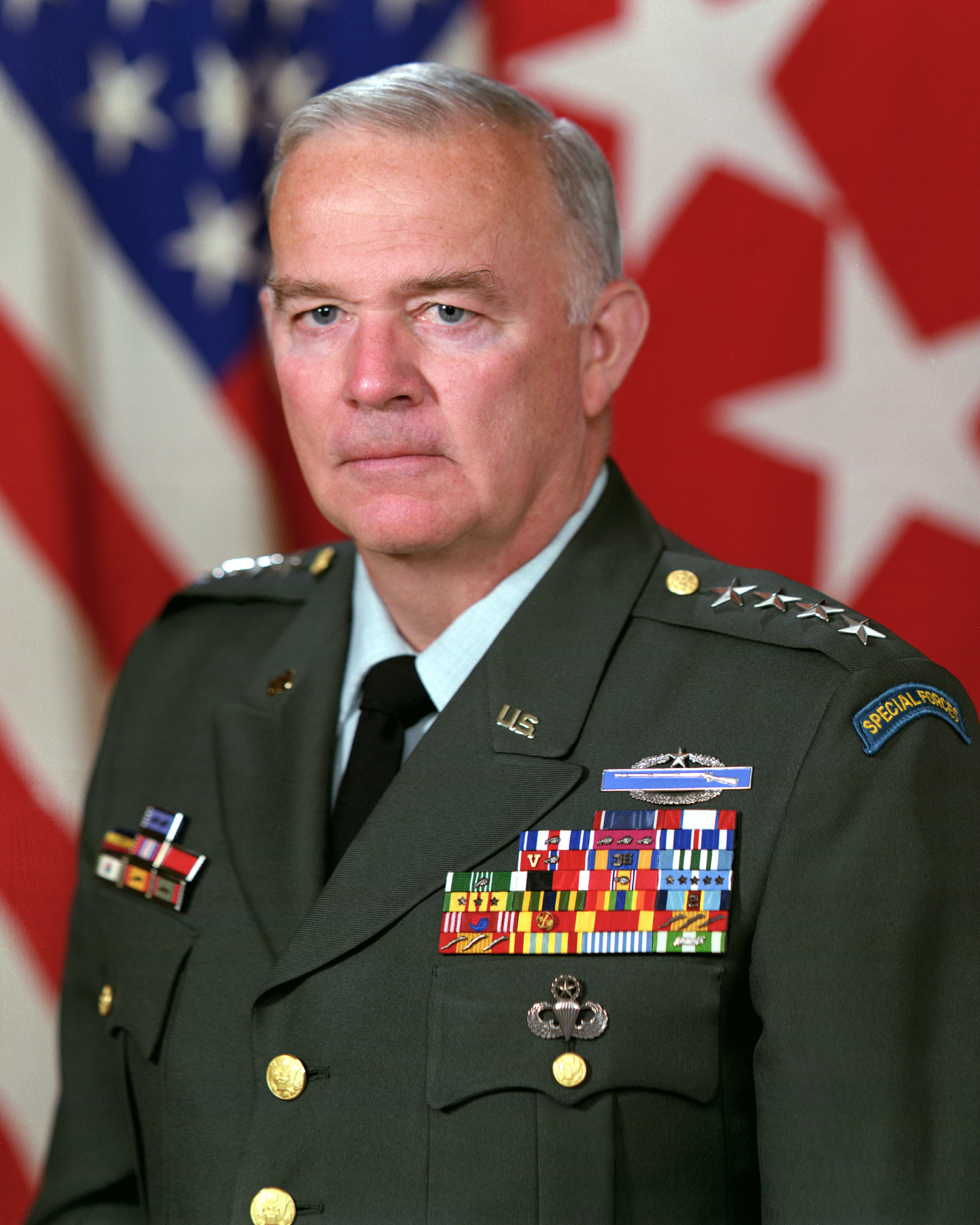 General Robert Kingston, former commander of CENTCOM.